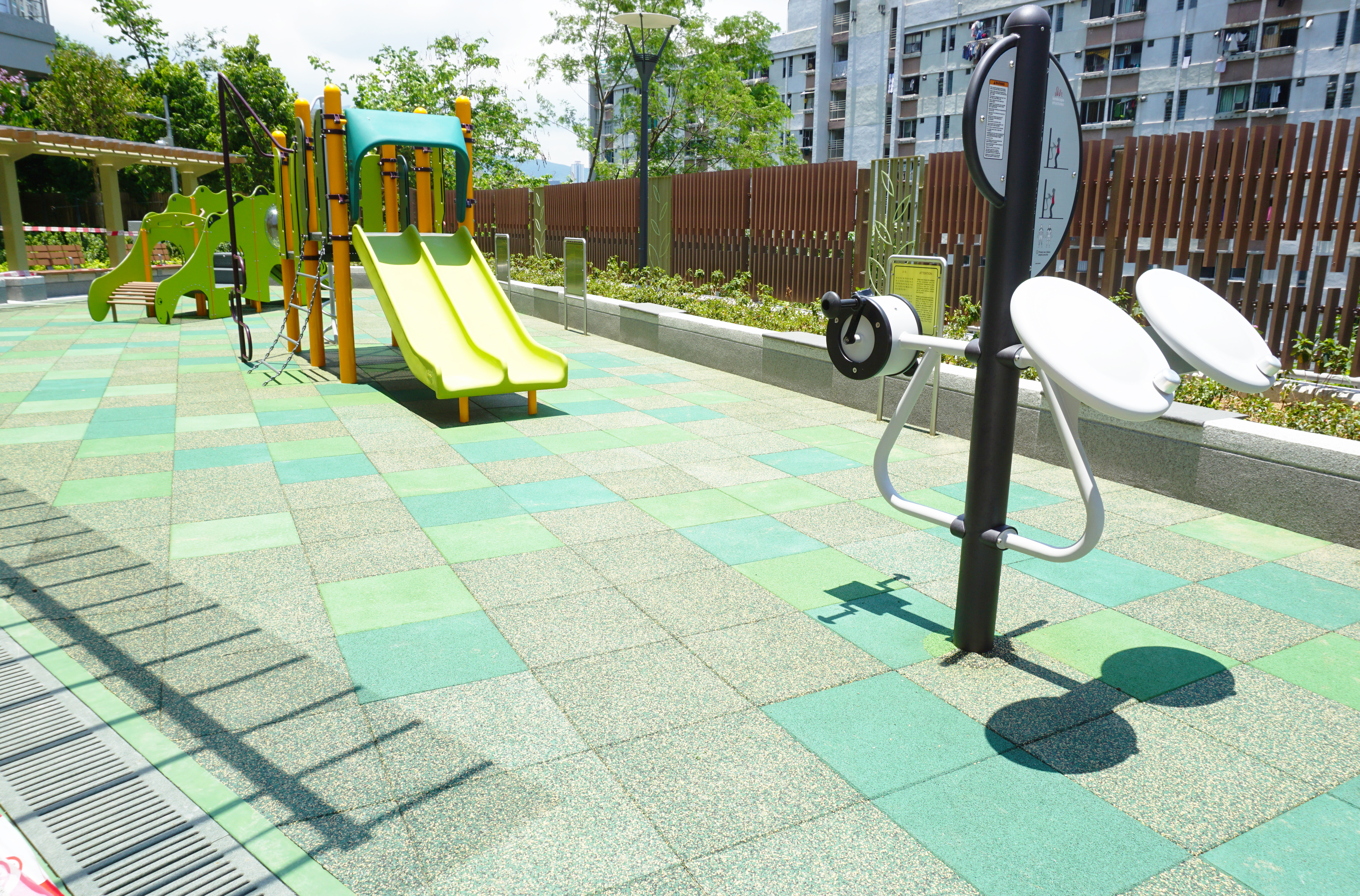 Ching Chun Court in Tsing Yi, Hong Kong.